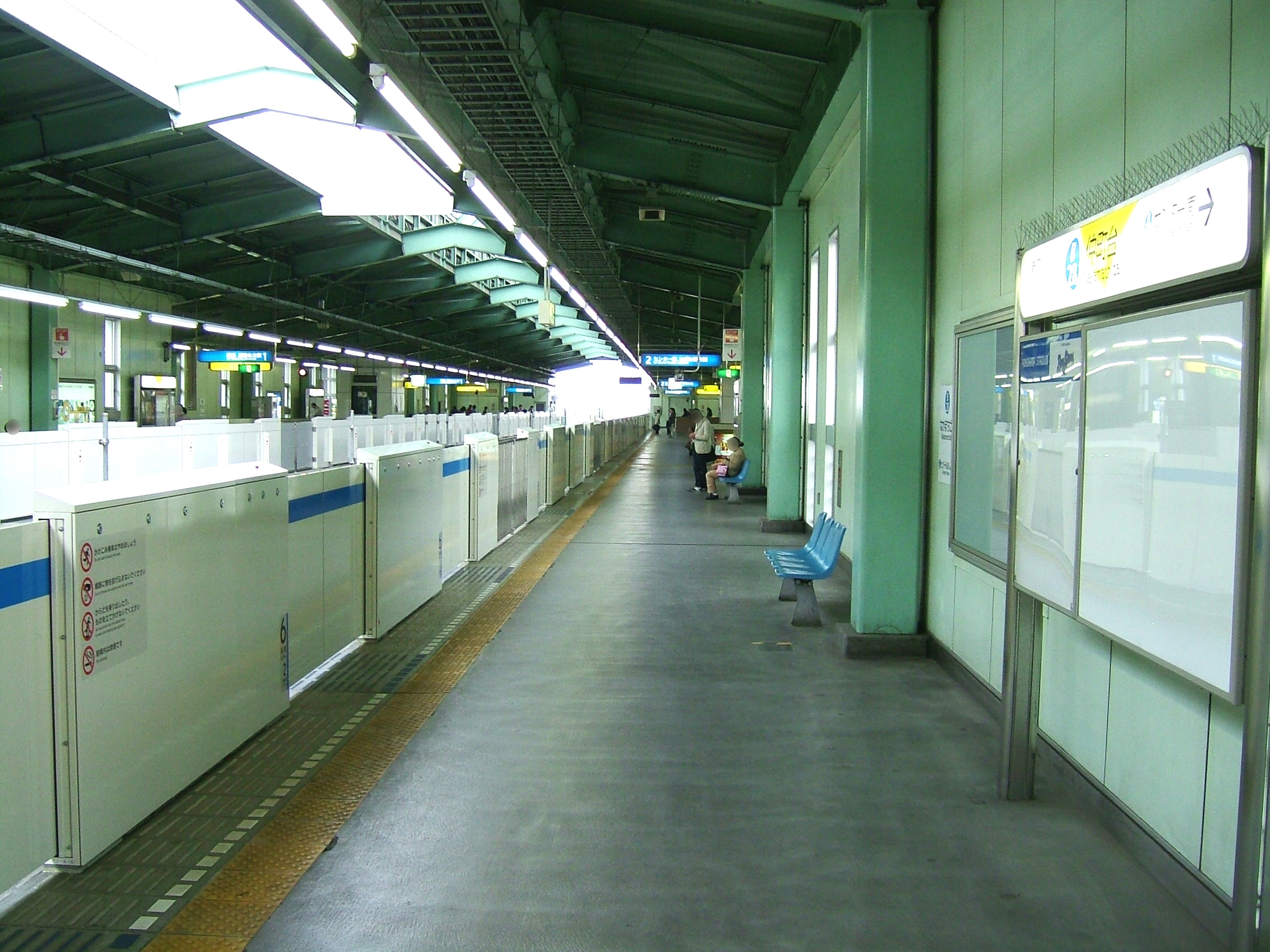 The platform at Nakamachidai Station on the Yokohama Municipal Subway Blue Line